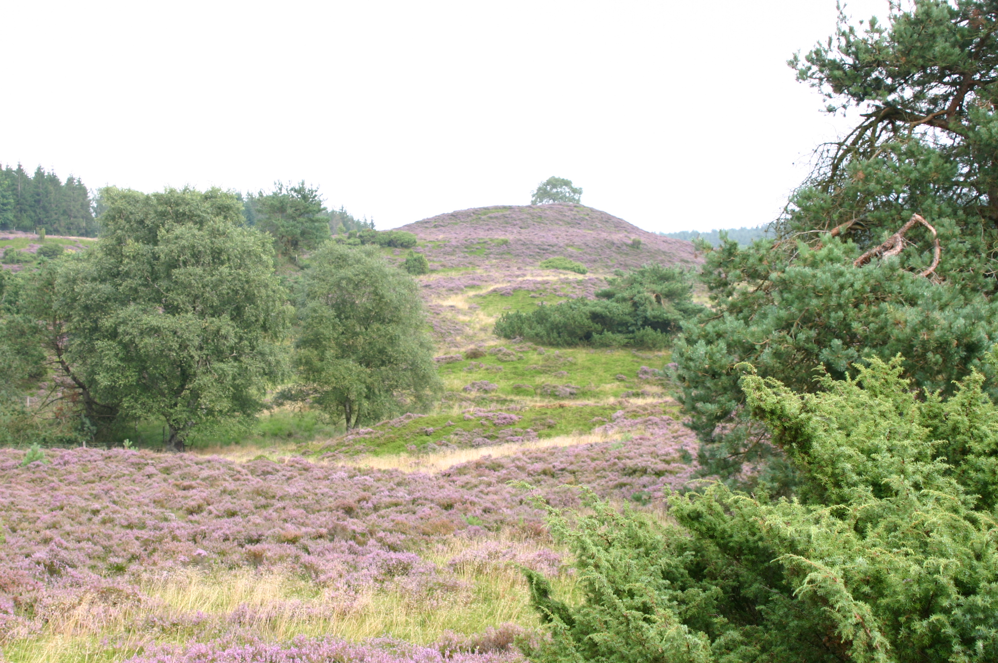 Ø Bakker. A scenic area of unspoilt nature 15 km. to the east of Viborg,Denmark.